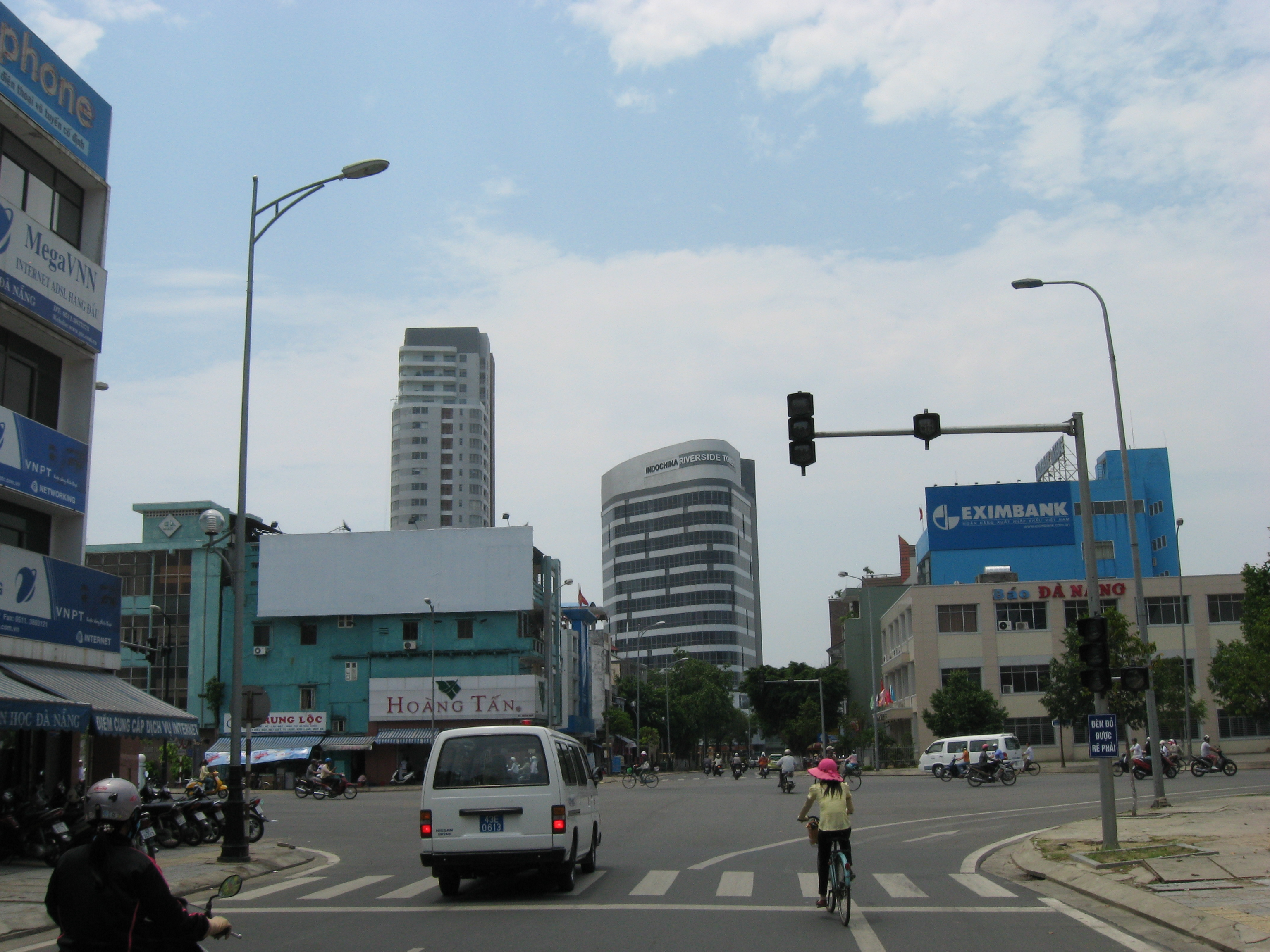 The intersection of Tran Phu and Le Duan Streets, Da Nang, looking towards the south. The Indochina Riverside Towers are seen in the background.